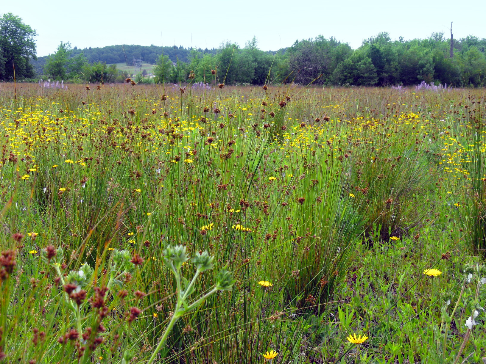 Spring is here and the flowers are in full bloom at one of Oregon's natural gems. Located on the western edge of Eugene, Oregon, the West Eugene Wetlands (WEW) is a beautiful and rare area of grassland habitats. Comprised of less than one percent of the original native wet prairie, the WEW is home to over 200 species of wildflowers, plants, birds, and animals, including four threatened and endangered species: Fender’s blue butterfly, Kincaid’s lupine, Bradshaw’s lomatium, and Willamette daisy. The BLM's Eugene District, in collaboration with other Rivers to Ridges partners, works to protect and restore this vital wetland ecosystem in the Southern Willamette Valley. This unique project involves federal, state, and local agencies, as well as non-profit organizations, working together to manage lands and resources in an urban area for multiple public benefits. Each year, Willamette Resources & Educational Network (WREN) provides hands-on, minds-on environmental education to over 1,500 local students. Photo credits: Christine Williams, Mackenzie Cowan, Sandra Miles, Sally Villegas, and West Eugene Wetlands staff. For directions or to plan a visit to the West Eugene Wetlands